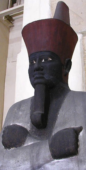 Close up of Mentuhotep II osiride statue discovered in the Bab el-Hosan